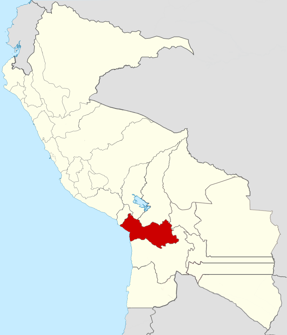 Estado de Tacnoruro de los Estados Unidos Perú-Bolivanos